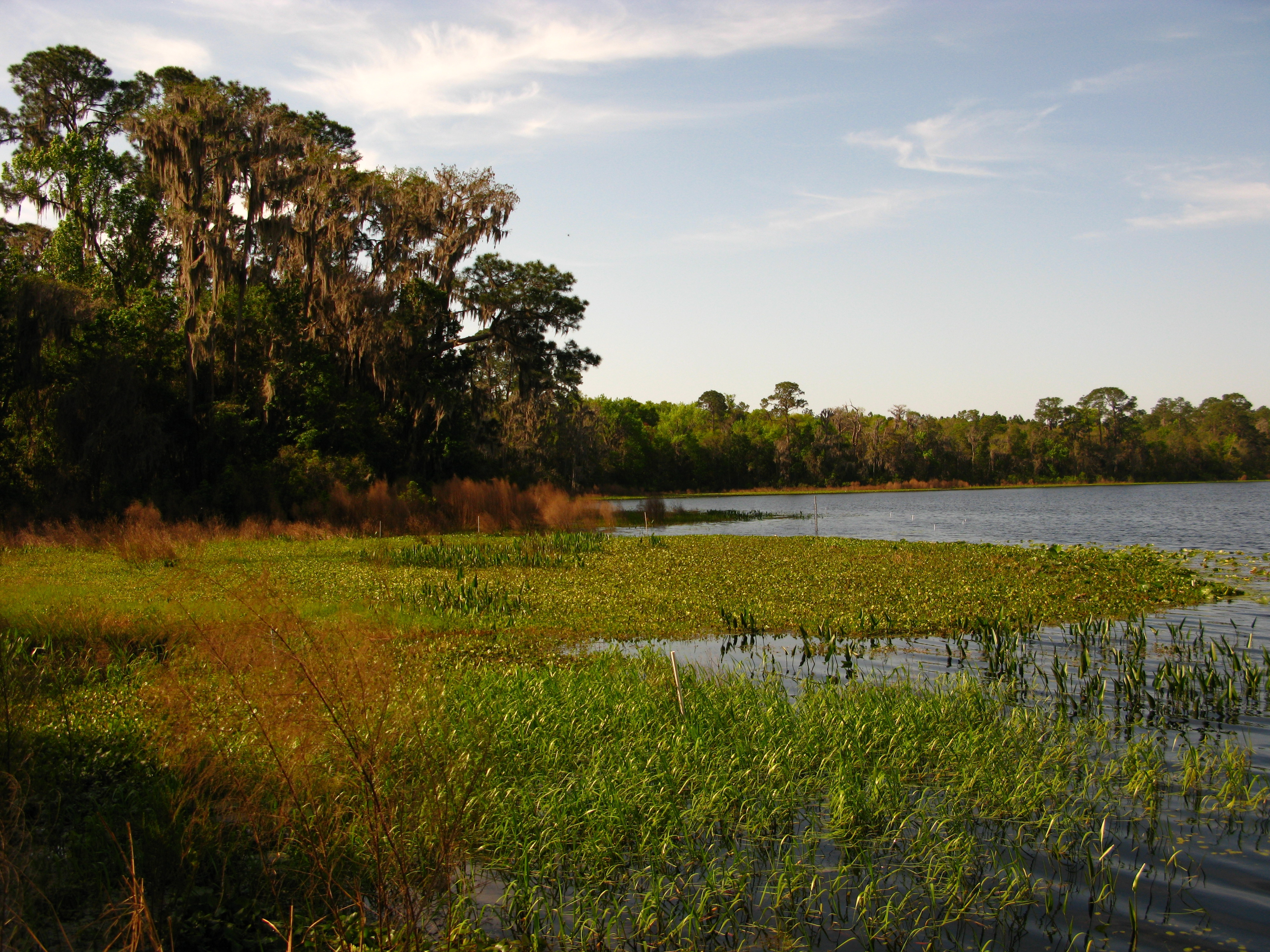 National Ecological Observatory Network Domain 3, SUGG